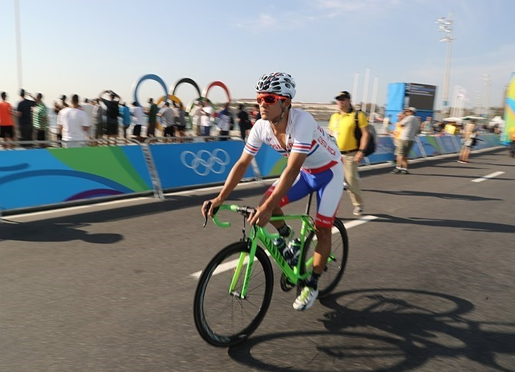 2016 Summer Olympics - Men's individual road race Cycling